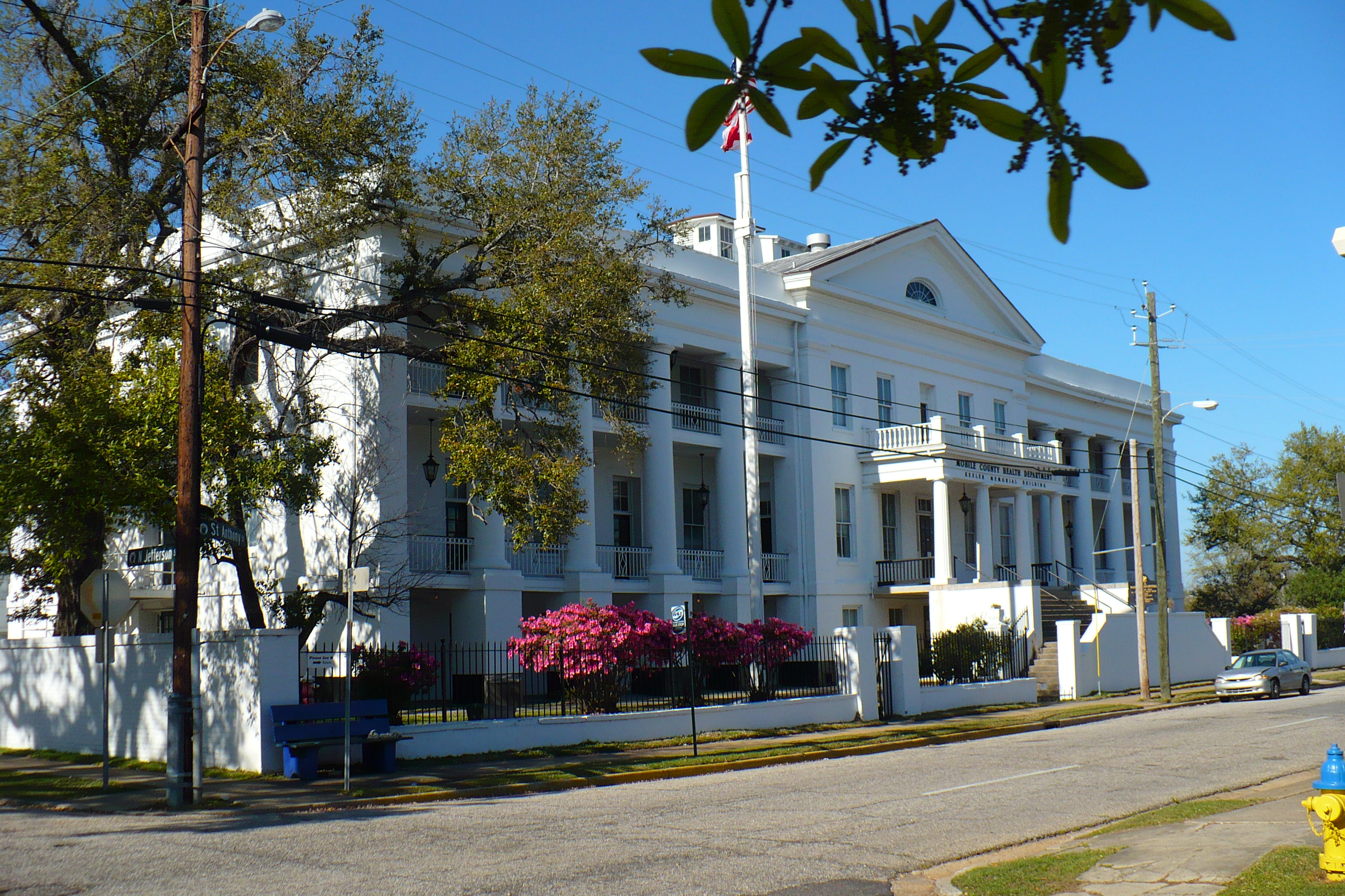 The Old Marine Hospital (now houses the Mobile County Health Dept.) in Mobile, Alabama.